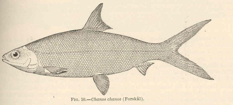 Chanos chanos (Forskai) Subject: Milkfish Tag: Fish